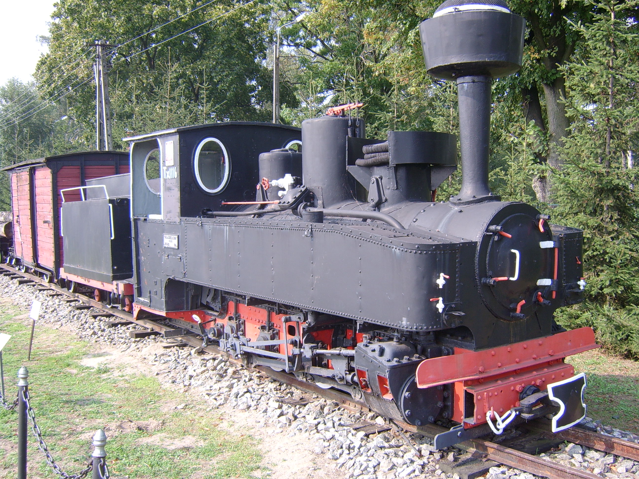 Narrow Gauge Railway Museum in Wenecja